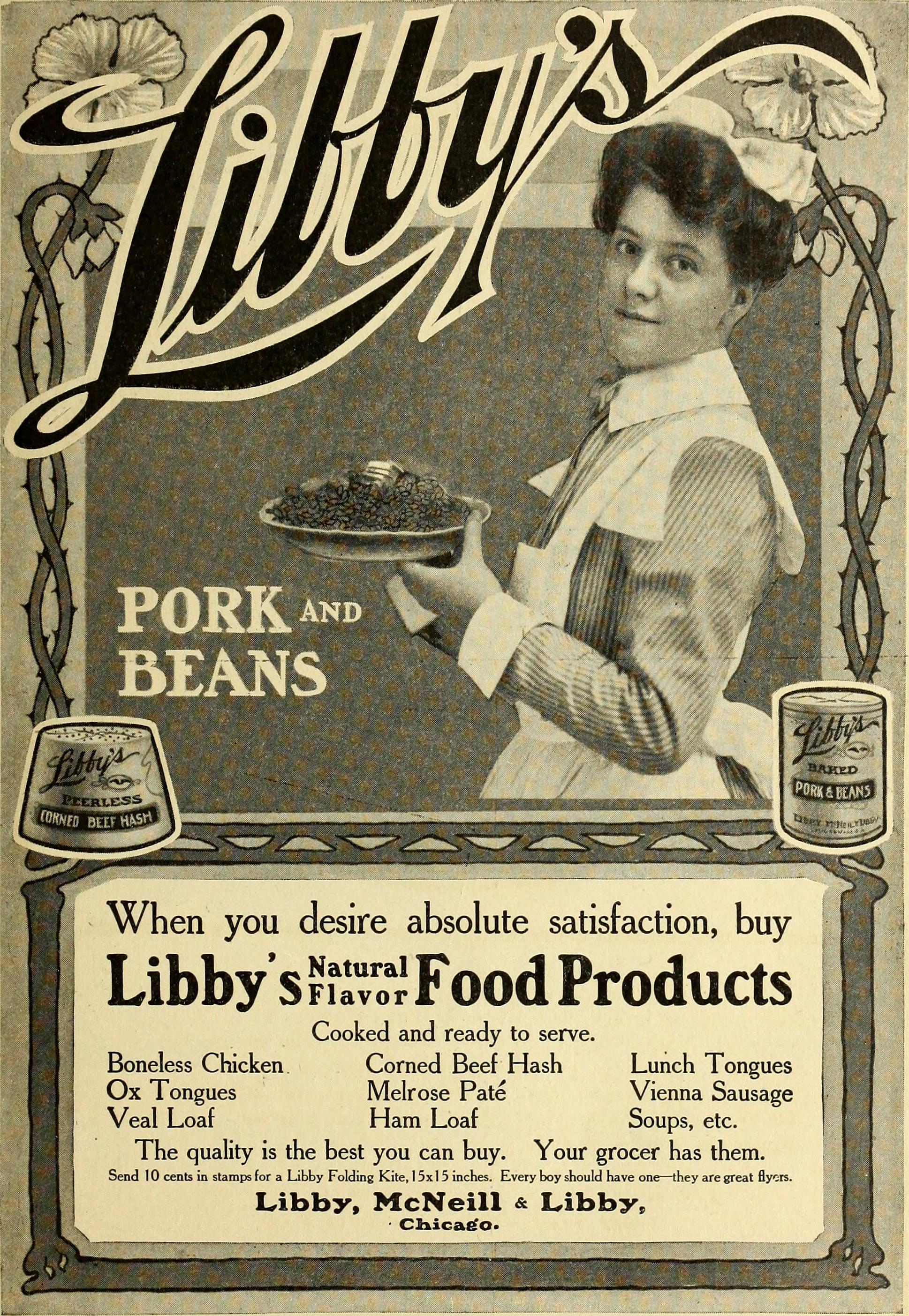 Libby's Pork and Beans ad, 1905 Title: St. Nicholas (serial) Year: 1873 (1870s) Authors: Dodge, Mary Mapes, 1830-1905 Subjects: Children's literature Publisher: (New York : Scribner & Co.) Text Appearing Before Image: Poets may sing of the Coming of Spring, but to the average house-wife, it merely means: It is Time to Clean House. At best, housecleaning is a season of unrest. But its miseries canbe greatly minimized by the wise use of Ivory Soap — to give newbeauty to furniture; to make rugs and curtains look as they did theday they were bought; to brighten silver and brasswork; to makeblankets as soft and fluffy as when new. Do not hesitate to use Ivory Soap for any purpose for which soap is used—it will improve the appearance of any article which water will not harm. Ivory Soap — 9945^o Per Cent. Pure. , ■■ ^^ 20 Text Appearing After Image: A MATTER OF HEALTH